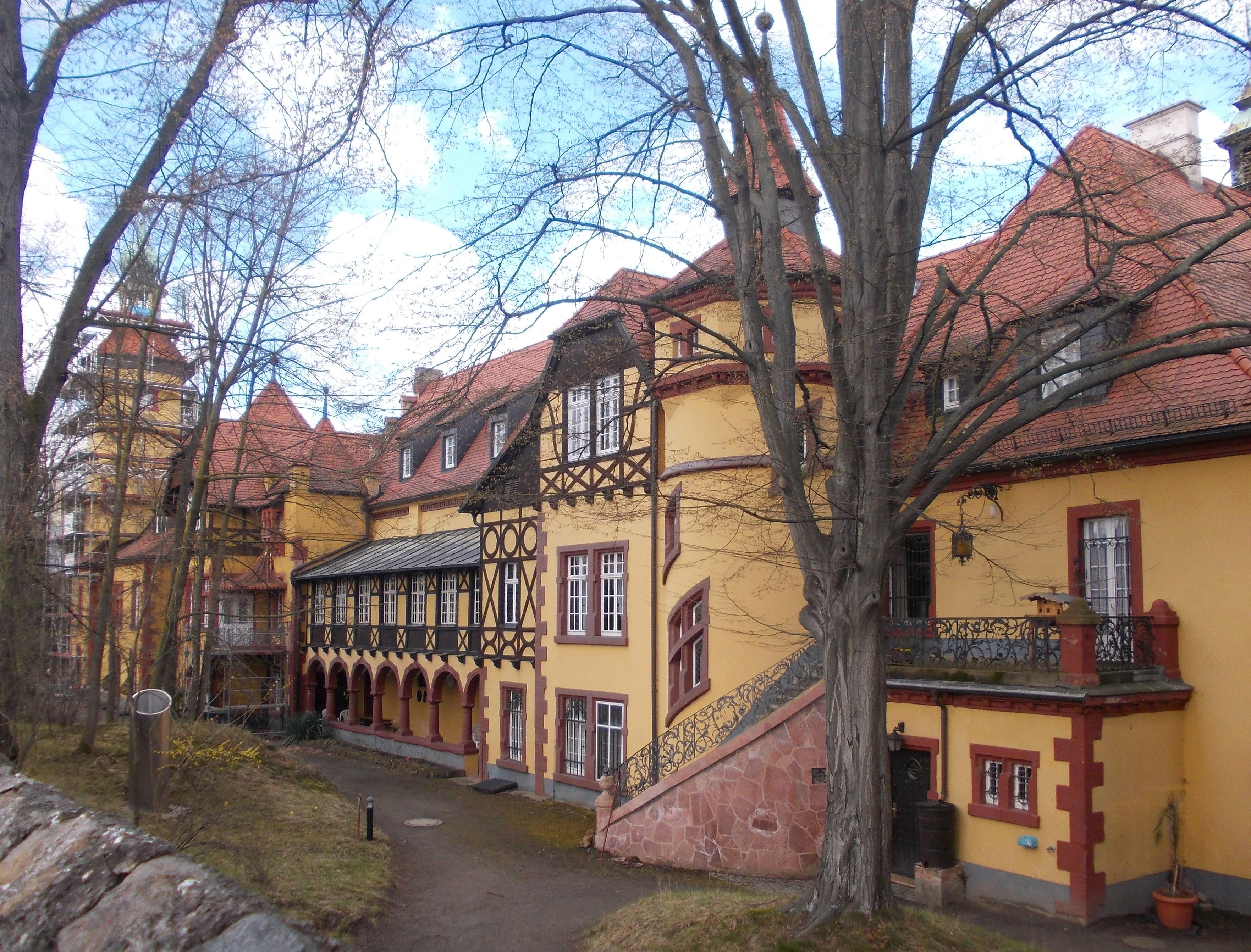 Seelingstädt estate (Trebsen, Leipzig district, Saxony)